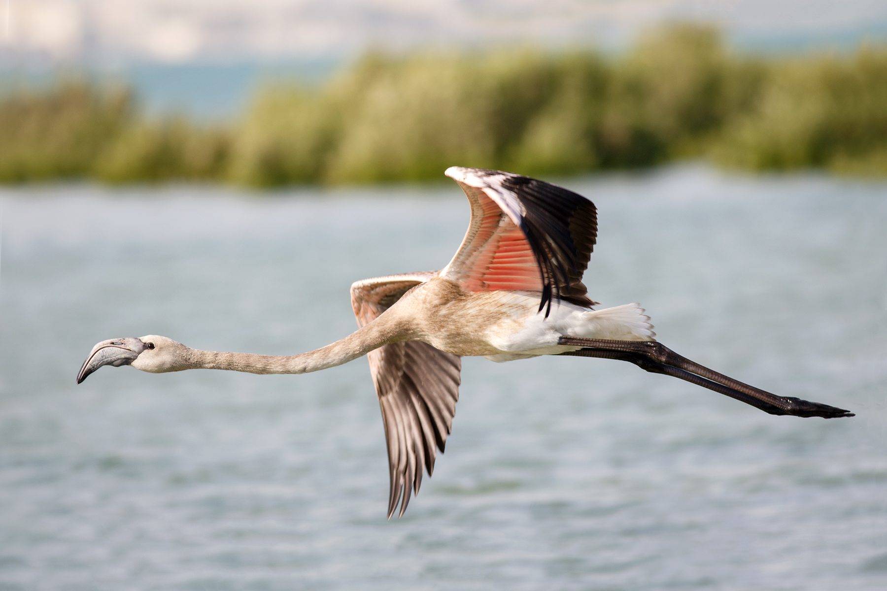 Greater flamingo